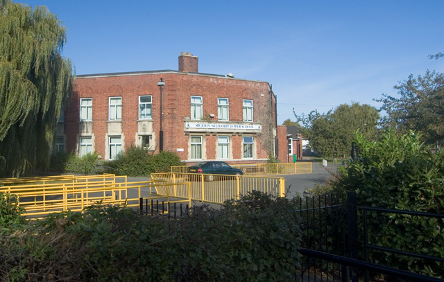 Sir John Nelthorpe Lower School, Brigg Buildings on Wrawby Road at the eastern end of the school campus. The school has a history going back to 1669. A specialist college for science. mathematics and computing, it has 926 pupils on roll.